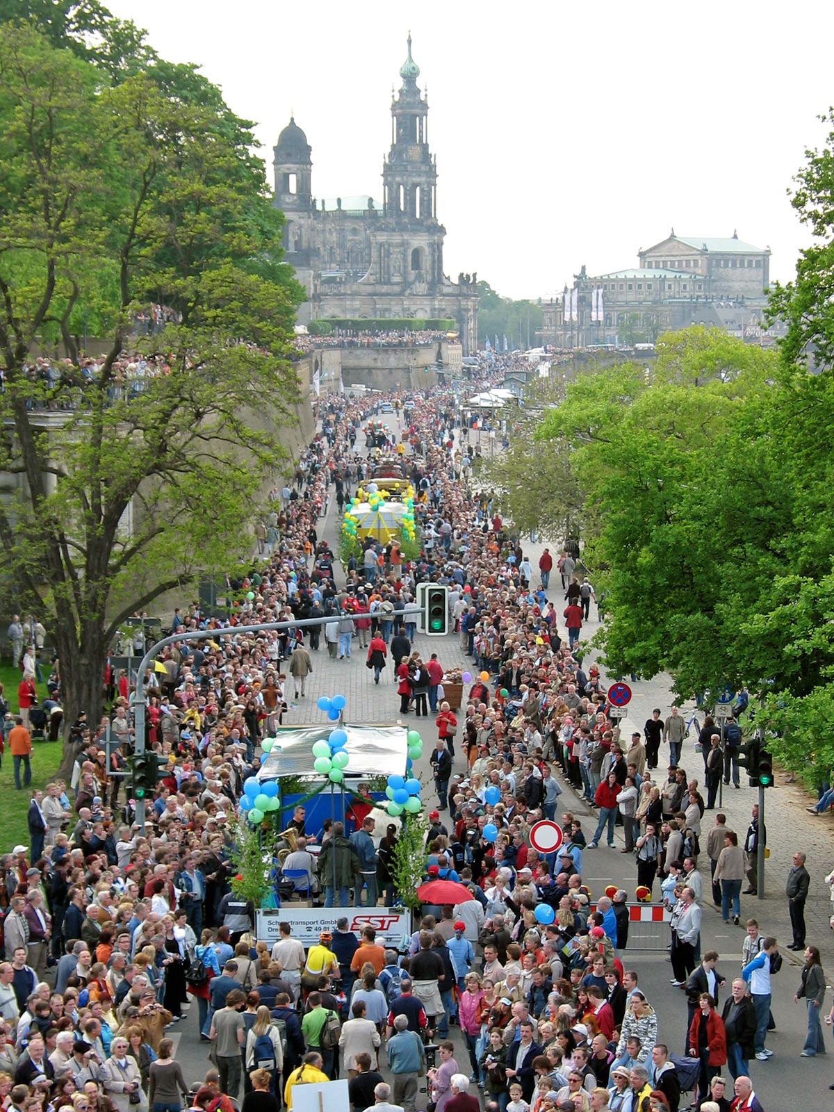 International dixieland festival 2006 in Dresden in Saxony, Germany.